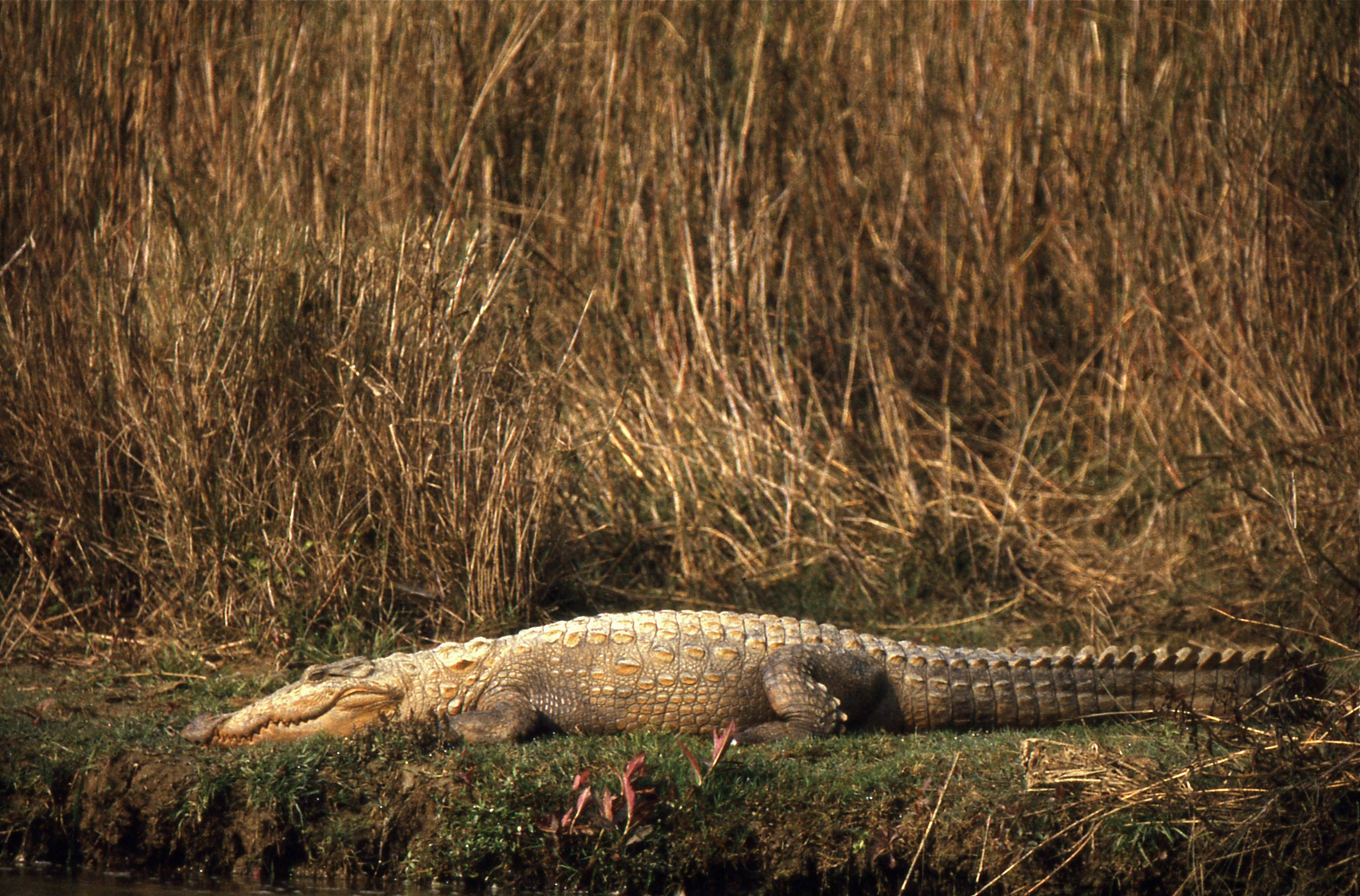 Rapti River, Chitwan NP, Terai, NEPAL Scanned Slide from January 1996